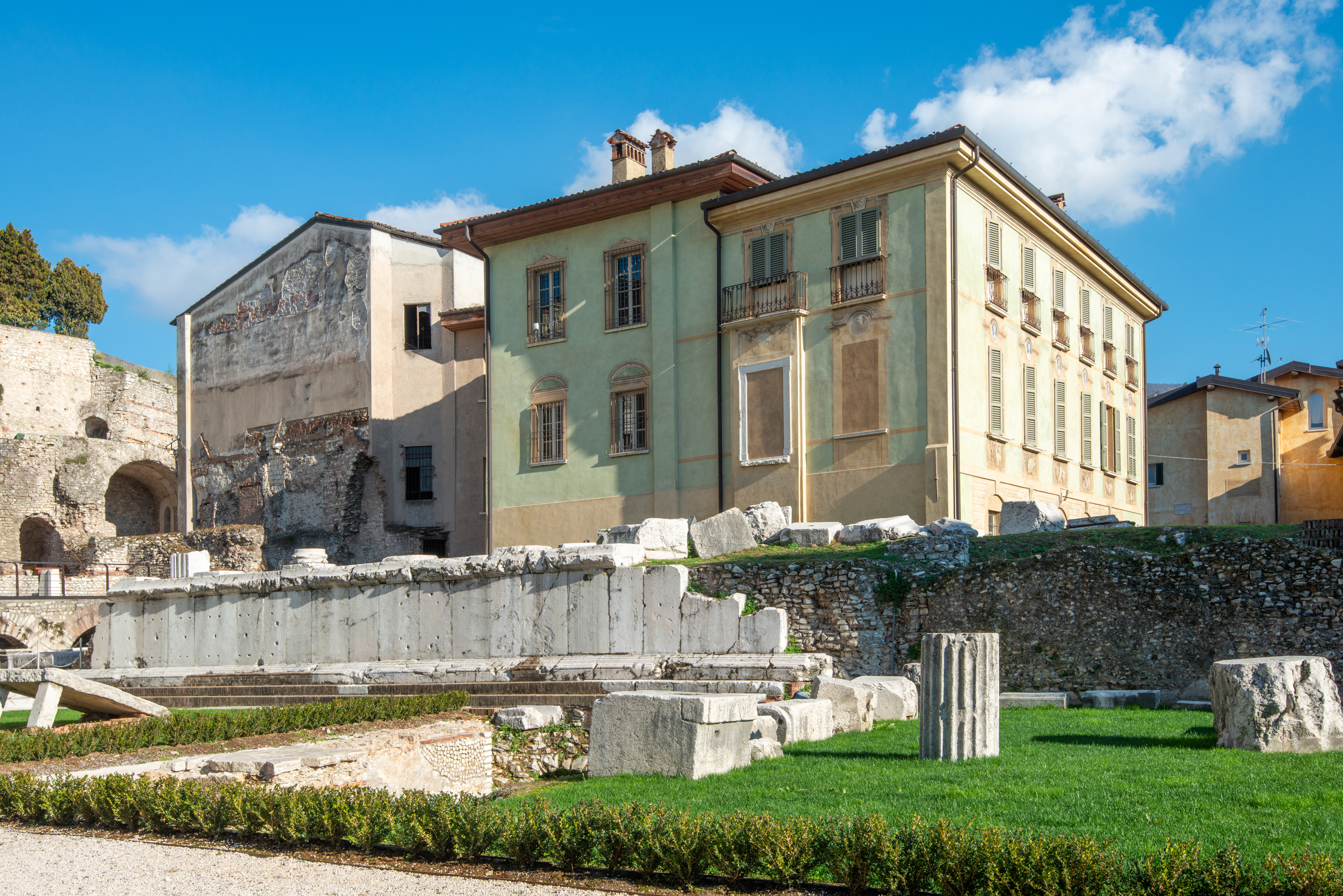 The Tempio Capitolino and Palazzo Maggi-Gambara al Fontanone palace in Brescia.